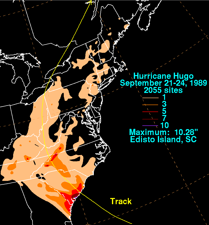 Rainfall produced by Hurricane Hugo during September 1989.